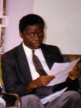 Cropped portrait of Marcel Lihau